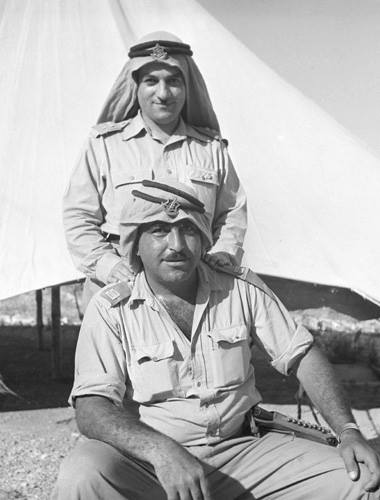 Israel Defense Forces